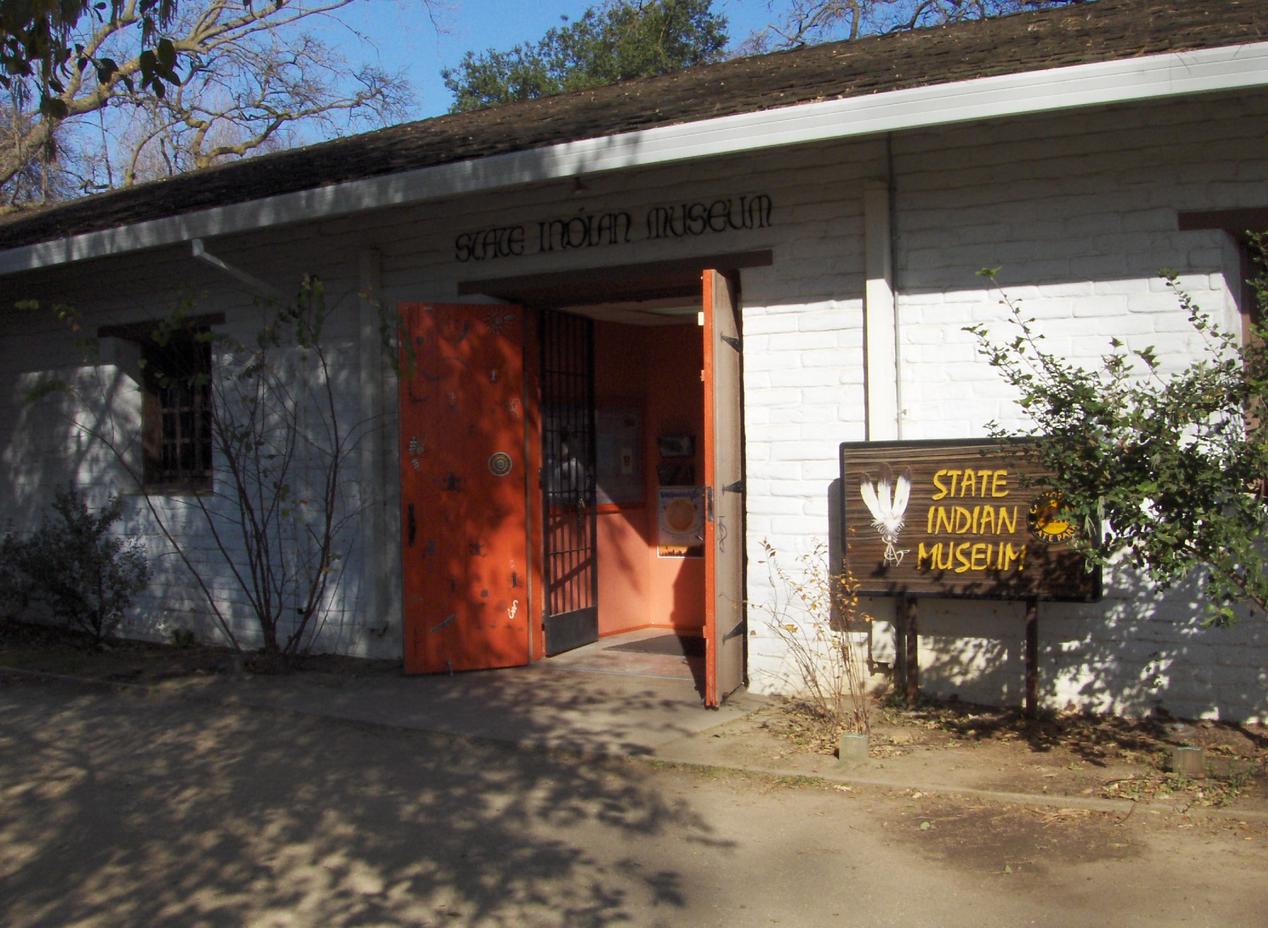 California State Indian Museum in Sacramento, CA. The museum was erected in 1940 on the grounds of Sutter's Fort State Historic Park.